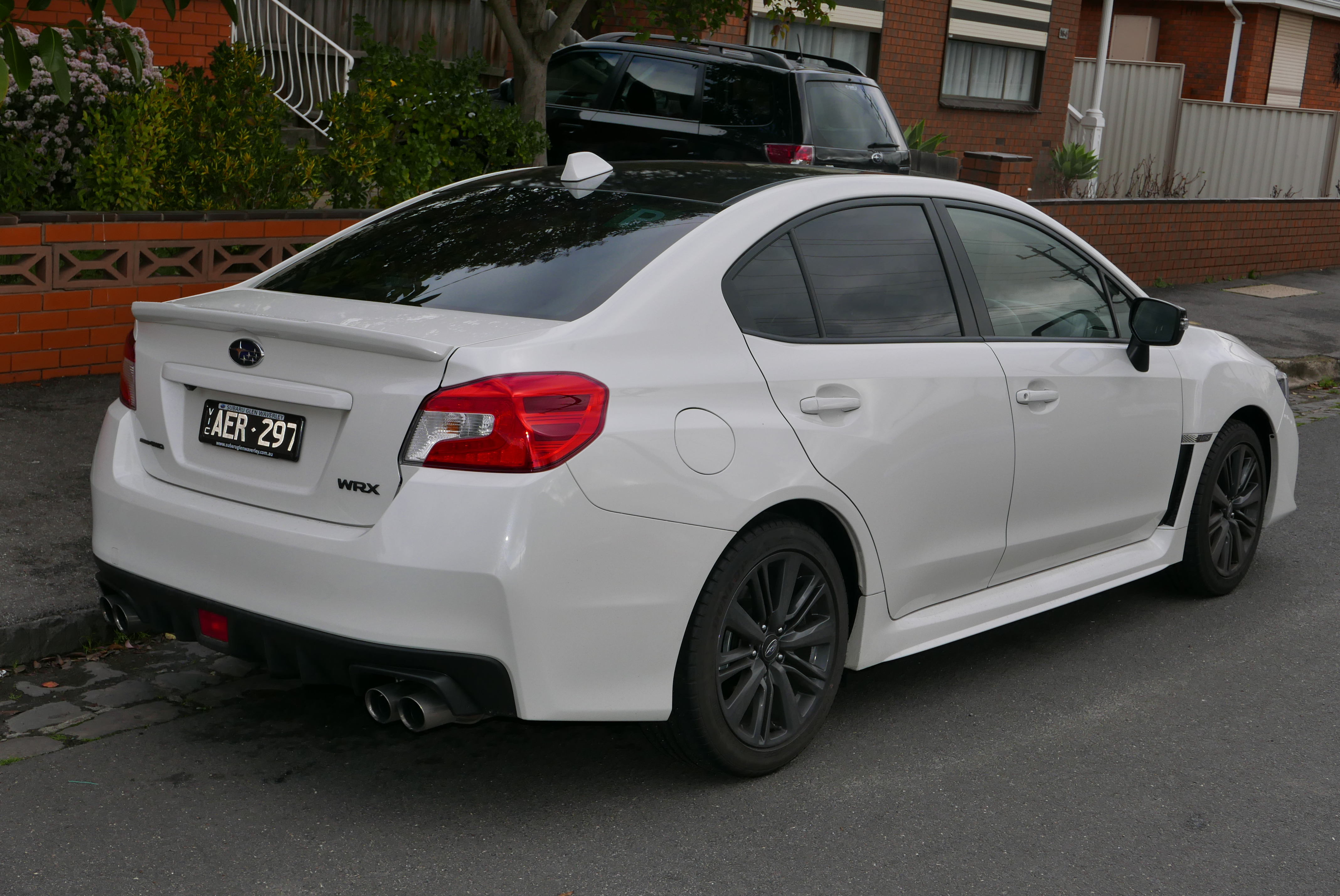 2015 Subaru WRX (VAG MY15) Premium sedan. Photographed in Brunswick, Victoria, Australia. Vehicle registration enquiry resultsJurisdictionVictoriaRegistrationAER297Chassis codeJF1VAGK85FG008289Engine codeK864366Compliance date2015-05Year of manufacture2015